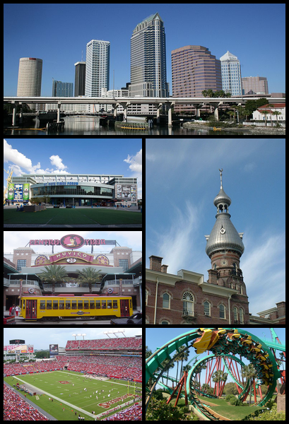 A collection of photos around Tampa